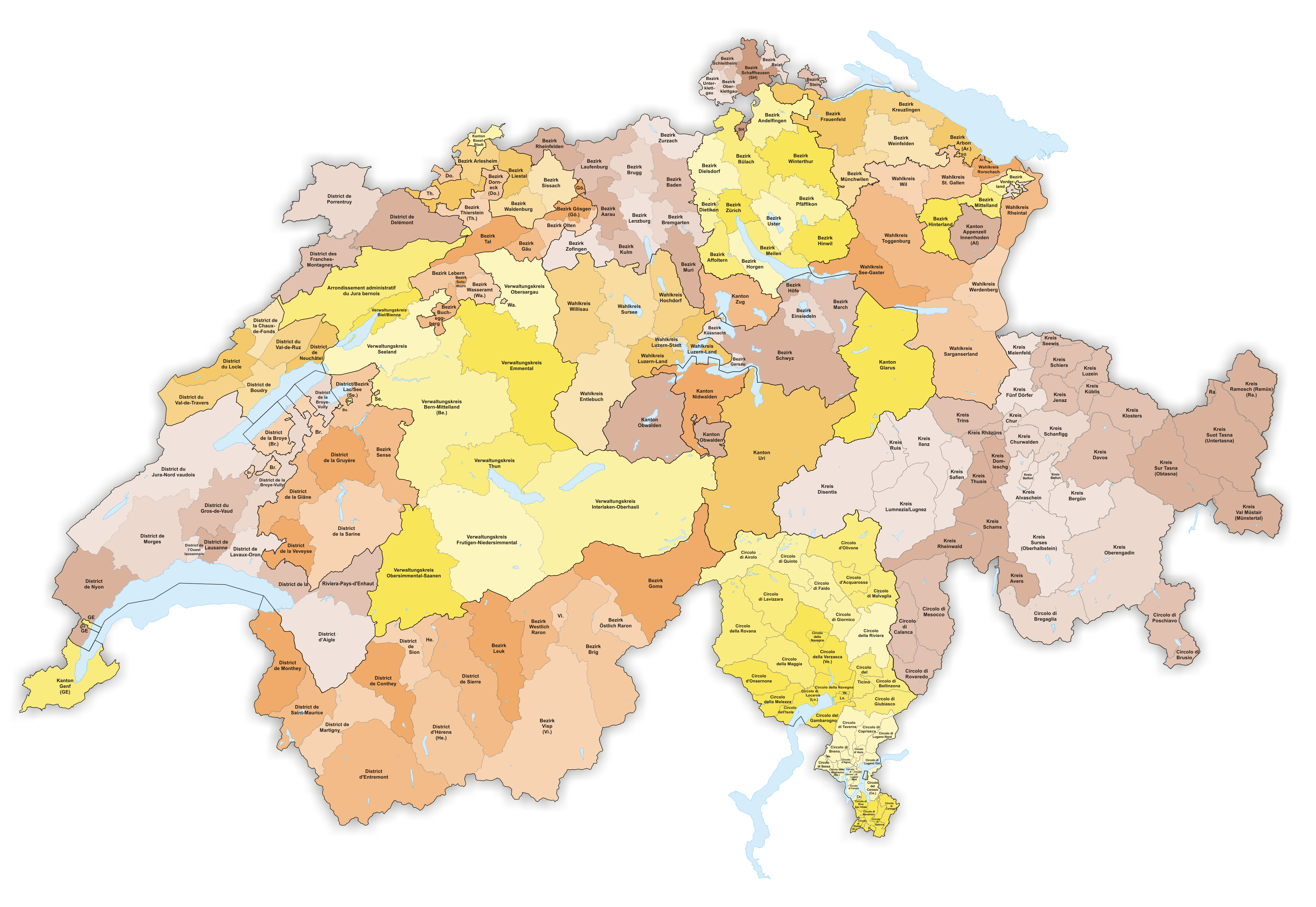 Districts and Sub Districts in Switzerland